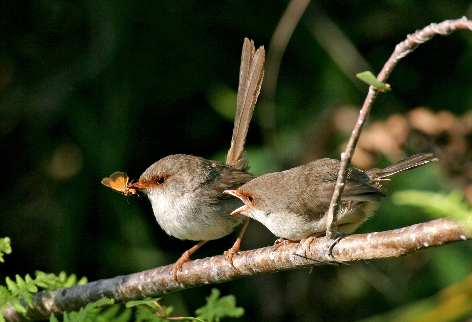 Superb Fairy-wrens feeding - Northern Beaches/Sydney